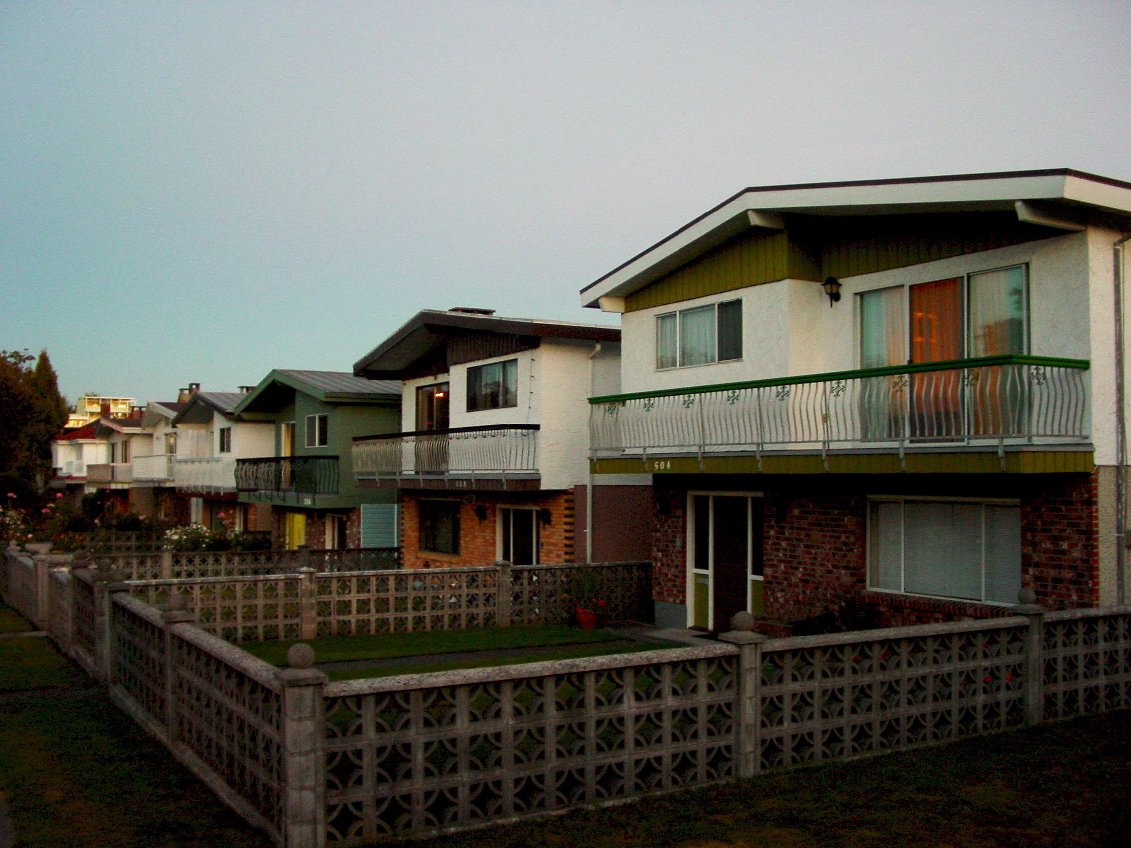 A nice block of Vancouver Specials...